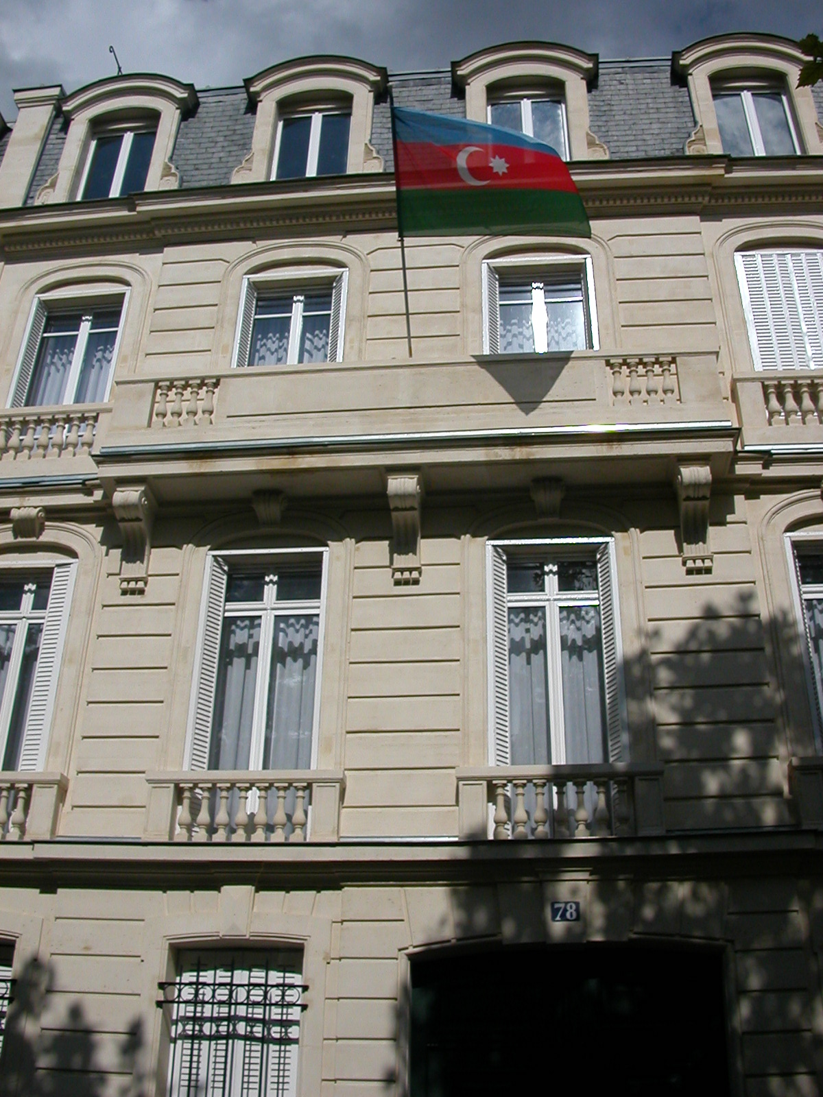 Azerbaijani embassy in France, Paris